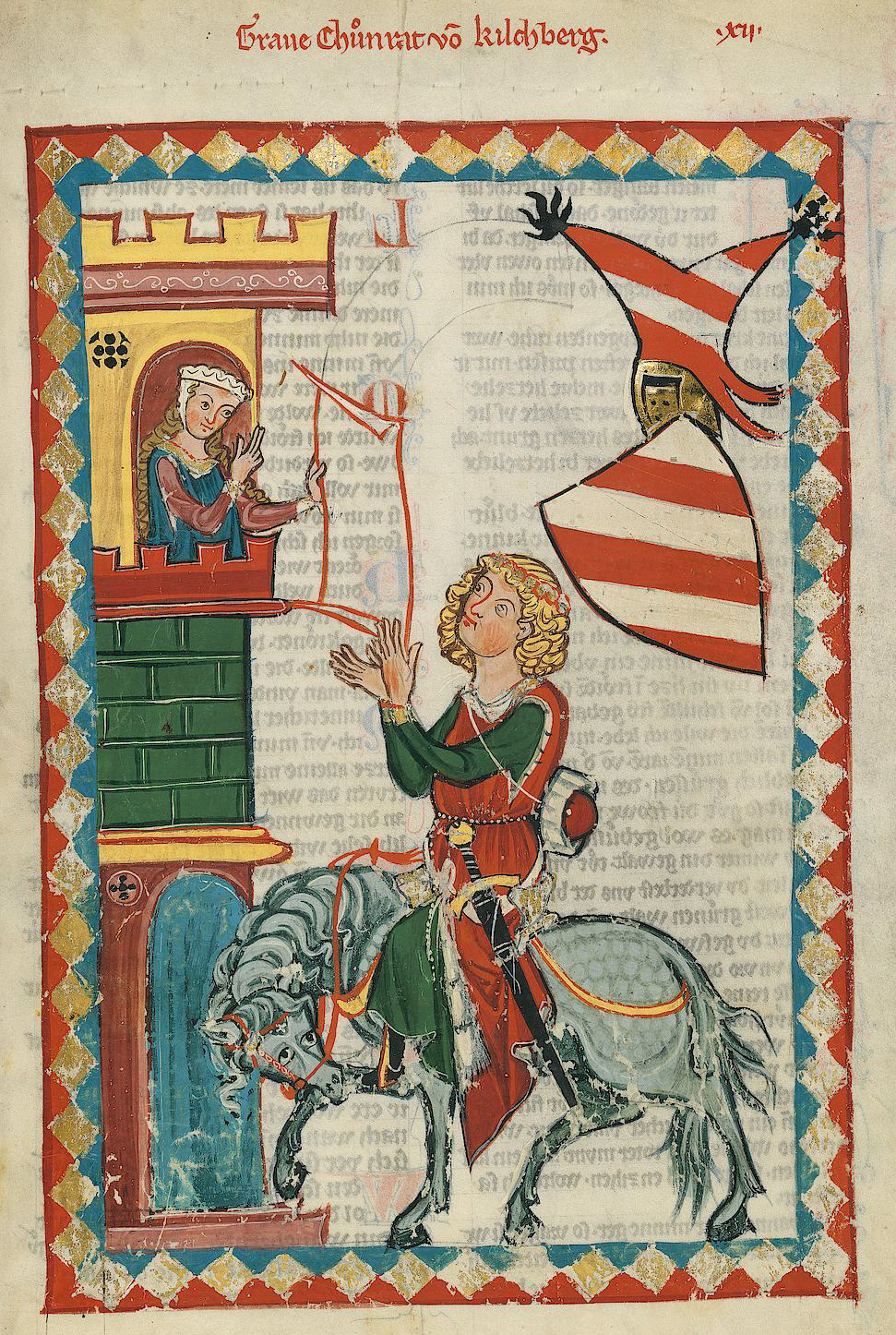 Trovador Germany (Minnesänger) offering a poem to his beloved. Illustration Manesse Codex.